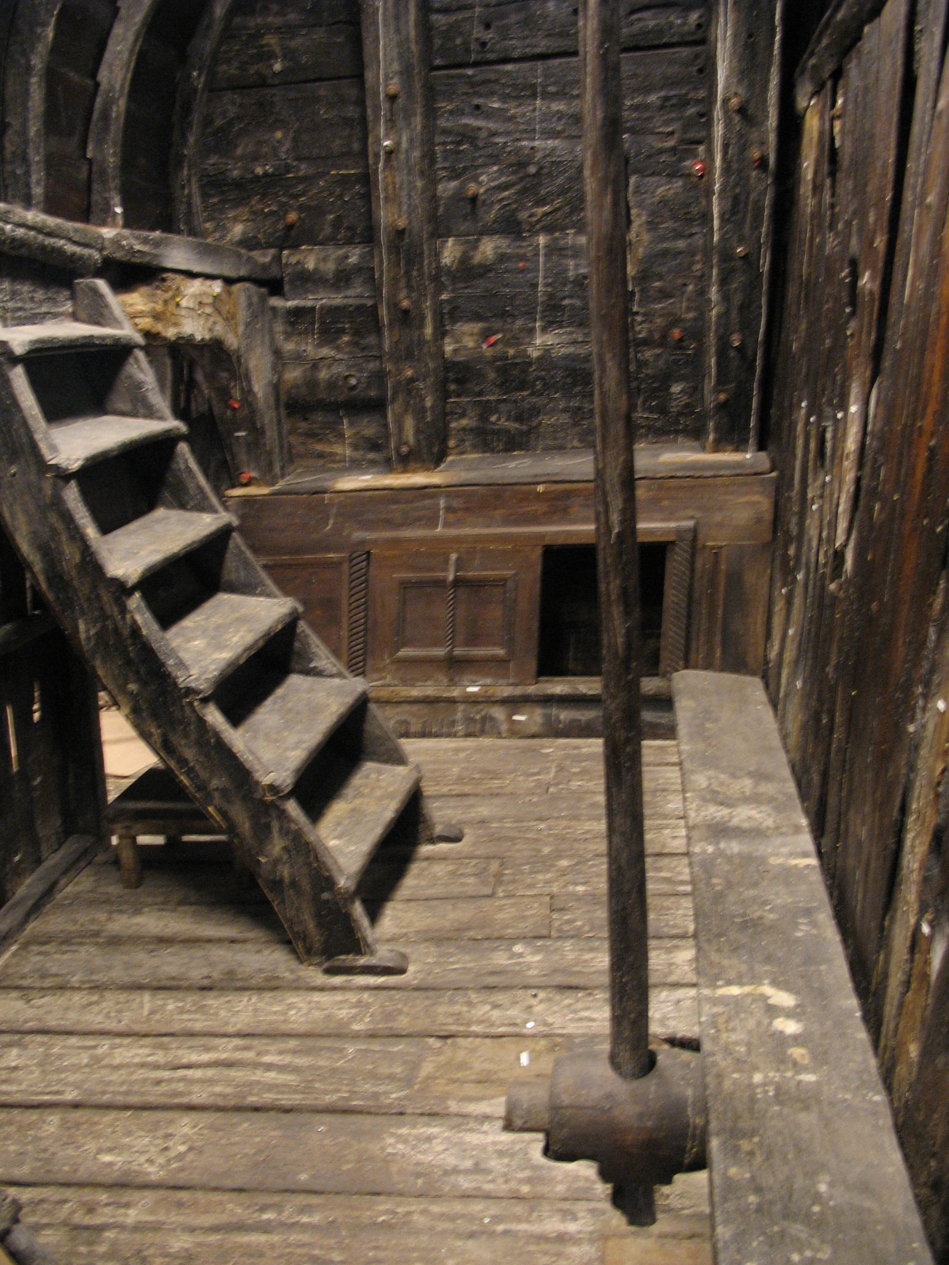 The steerage of the warship Vasa, displayed in the Vasa Museum in Stockholm, Sweden. Picture taken inside the ship on the upper gun deck looking starboard.